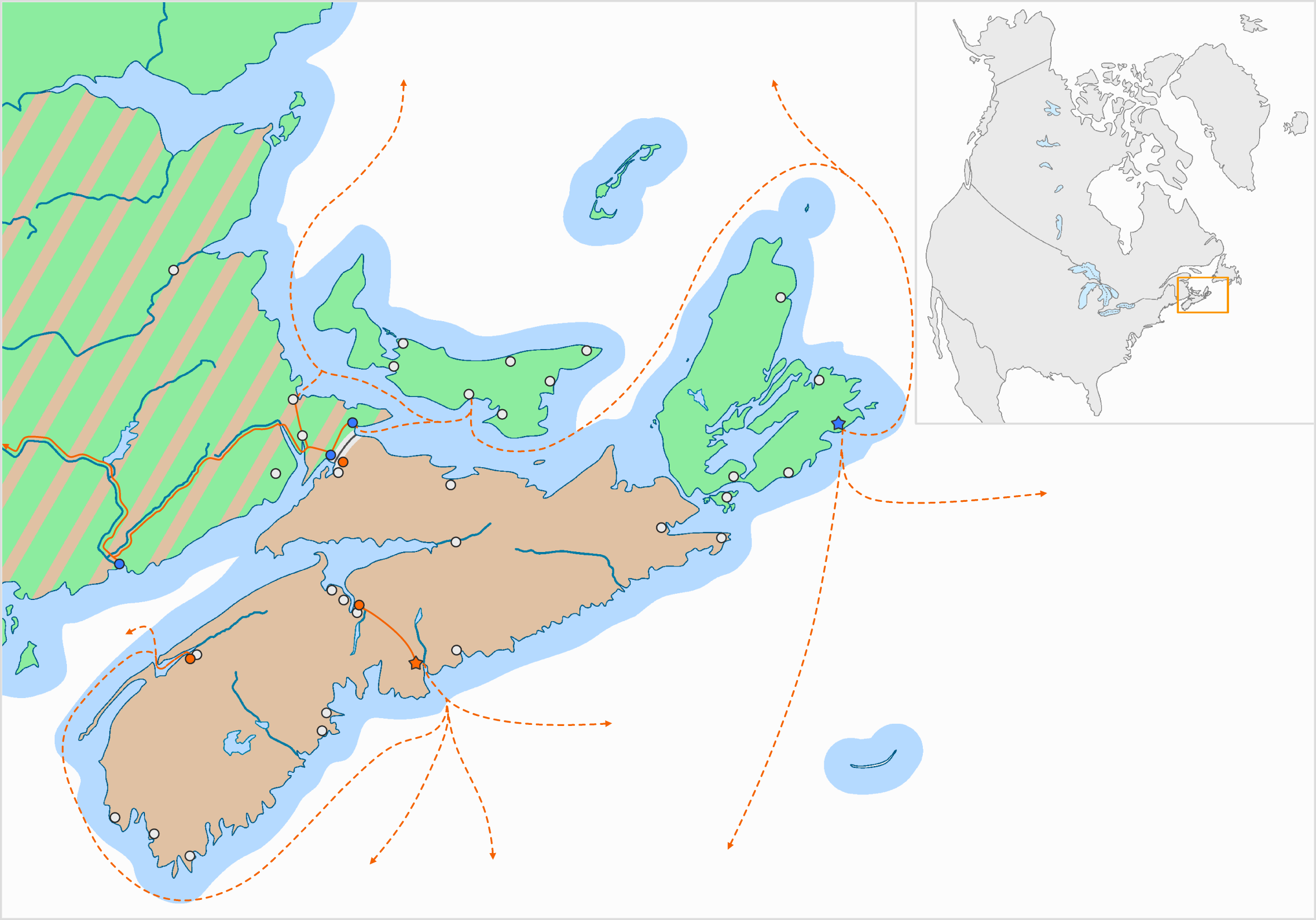 Acadia (1754) – Template for other languages